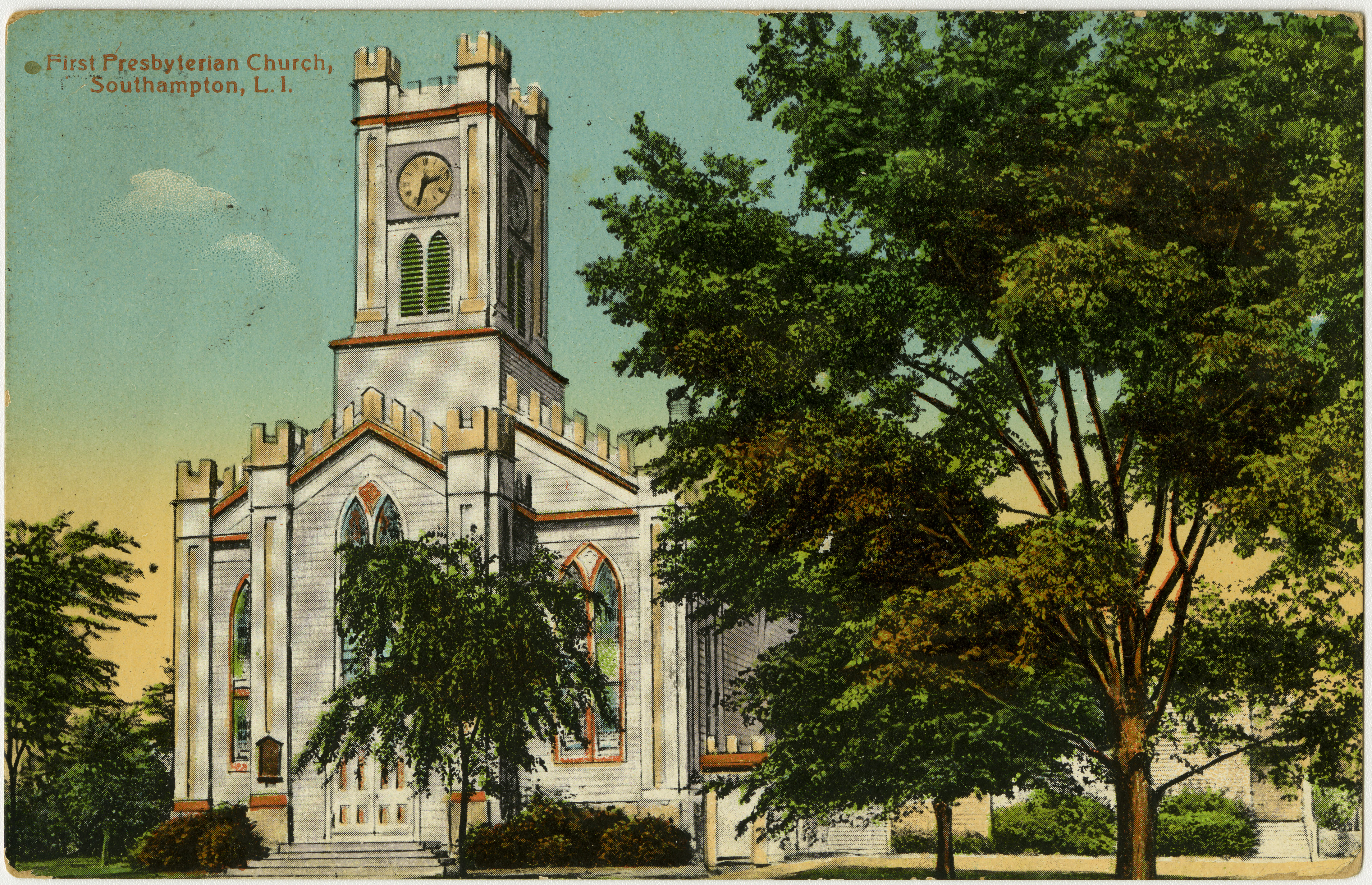 Presbyterian Church in Southampton, New York from a pre-1923 postcard From RG 428, Postcard Collection, Presbyterian Historical Society, Philadelphia, Pennsylvania